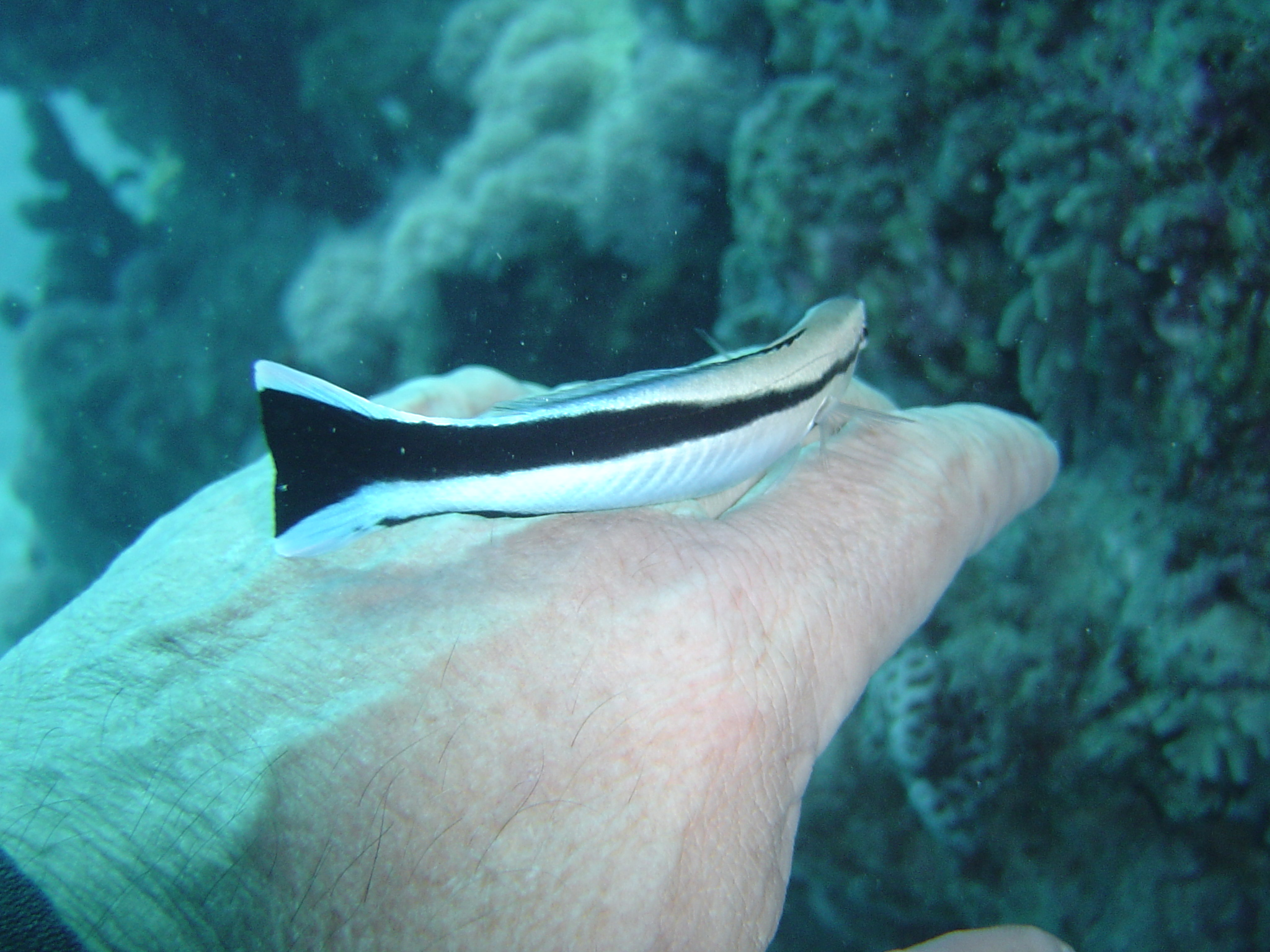 Labroides dimidiatus on the hand of the diver.